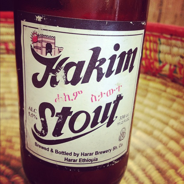 Hakim Stout beer, brewed and bottled by the Harar Brewery company in Harar, Ethiopia.